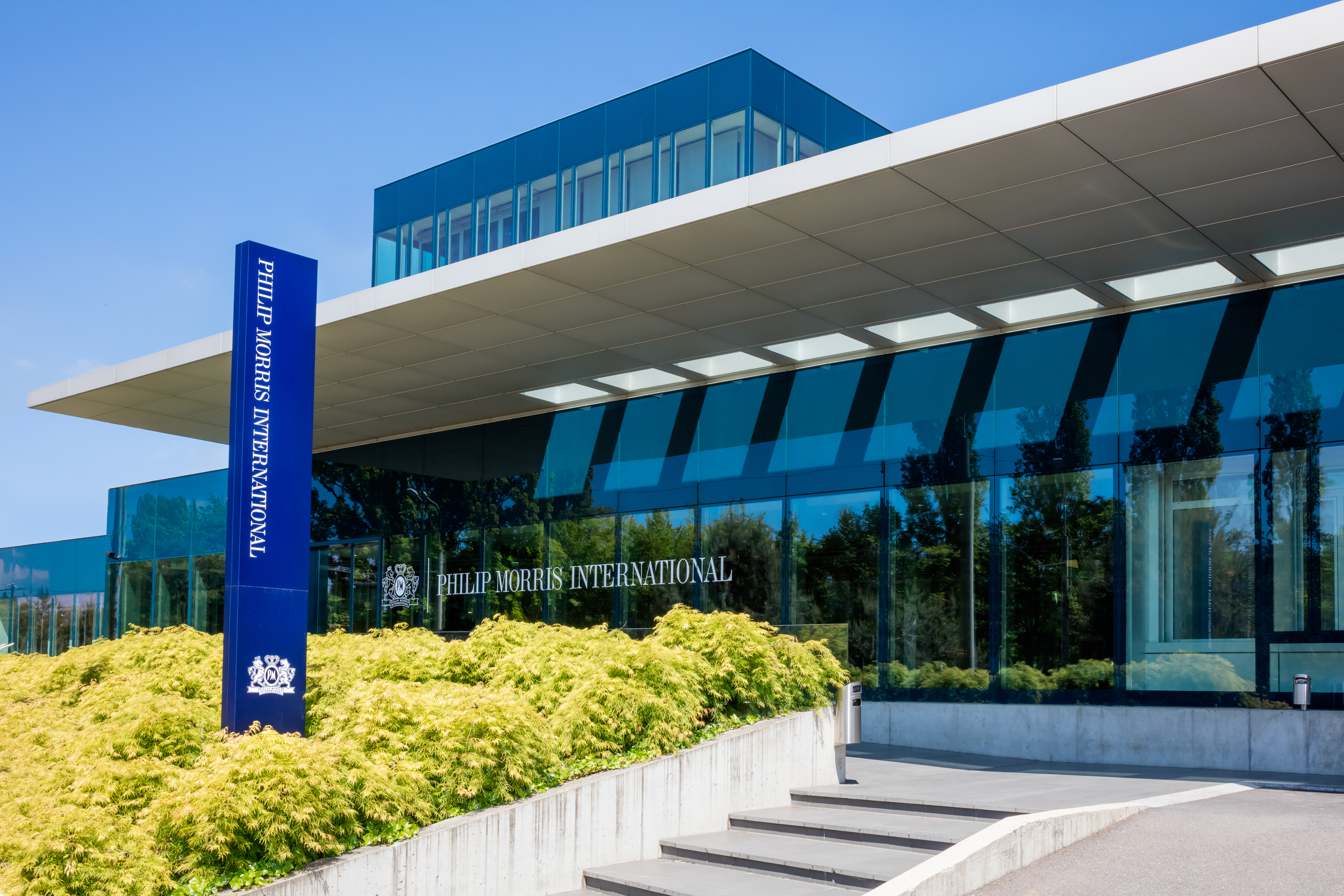 Philip Morris International's Operation Center in Lausanne, Switzerland